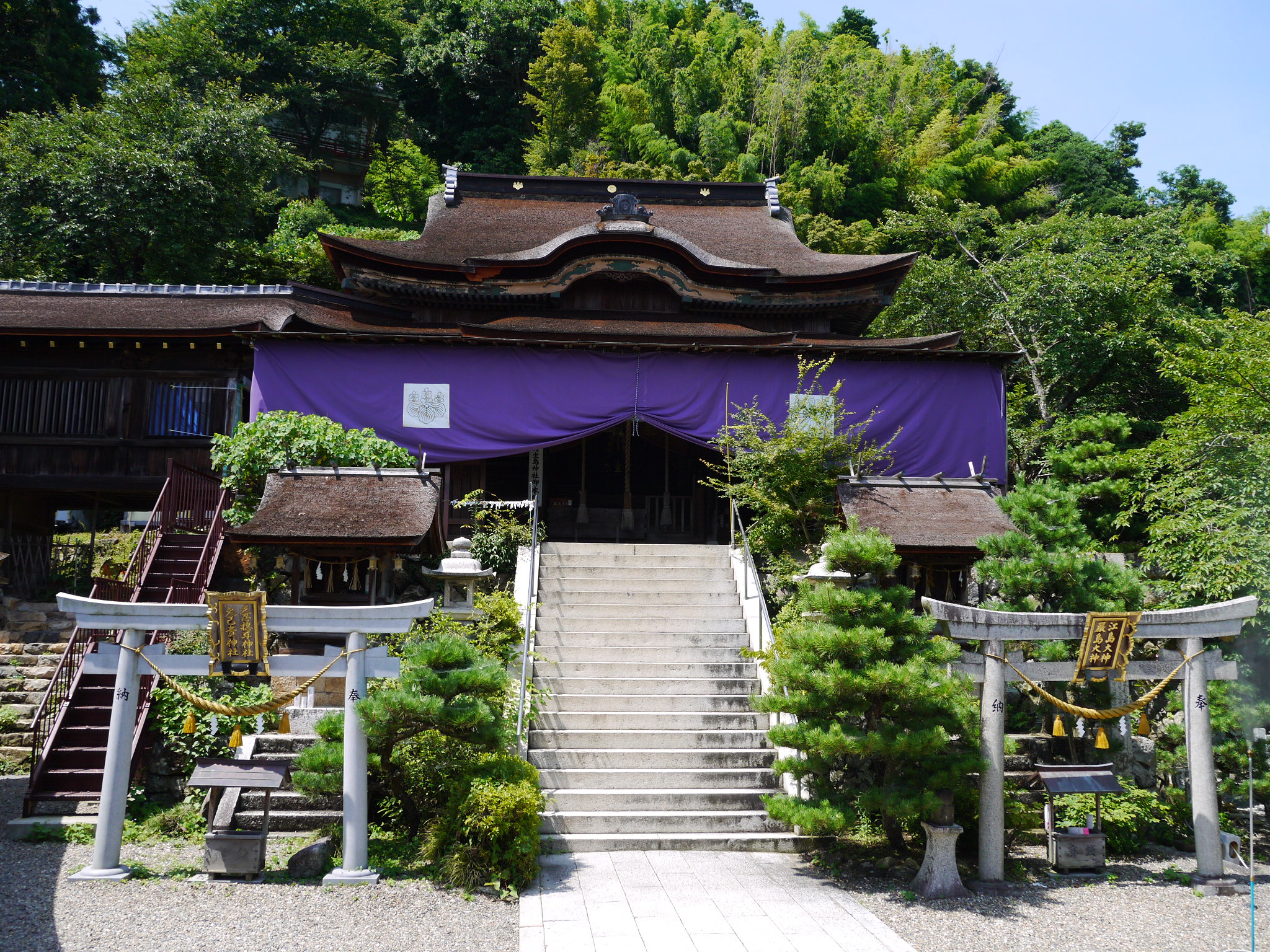 Tsukubusuma Shrine - Chikubu Island - Lake Biwa